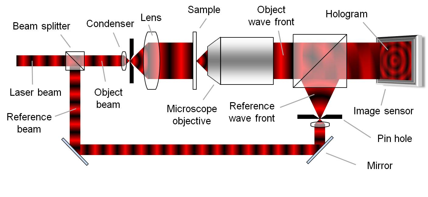 Optical setup of digital holographic microscopy (DHM).